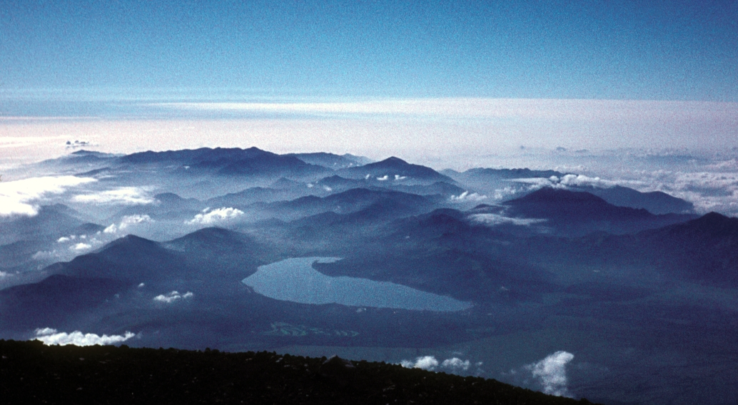 Japanese lake seen from Mount Fuji on 19 or 19 Aug 1974. Picture taken and uploaded by Roger McLassus.